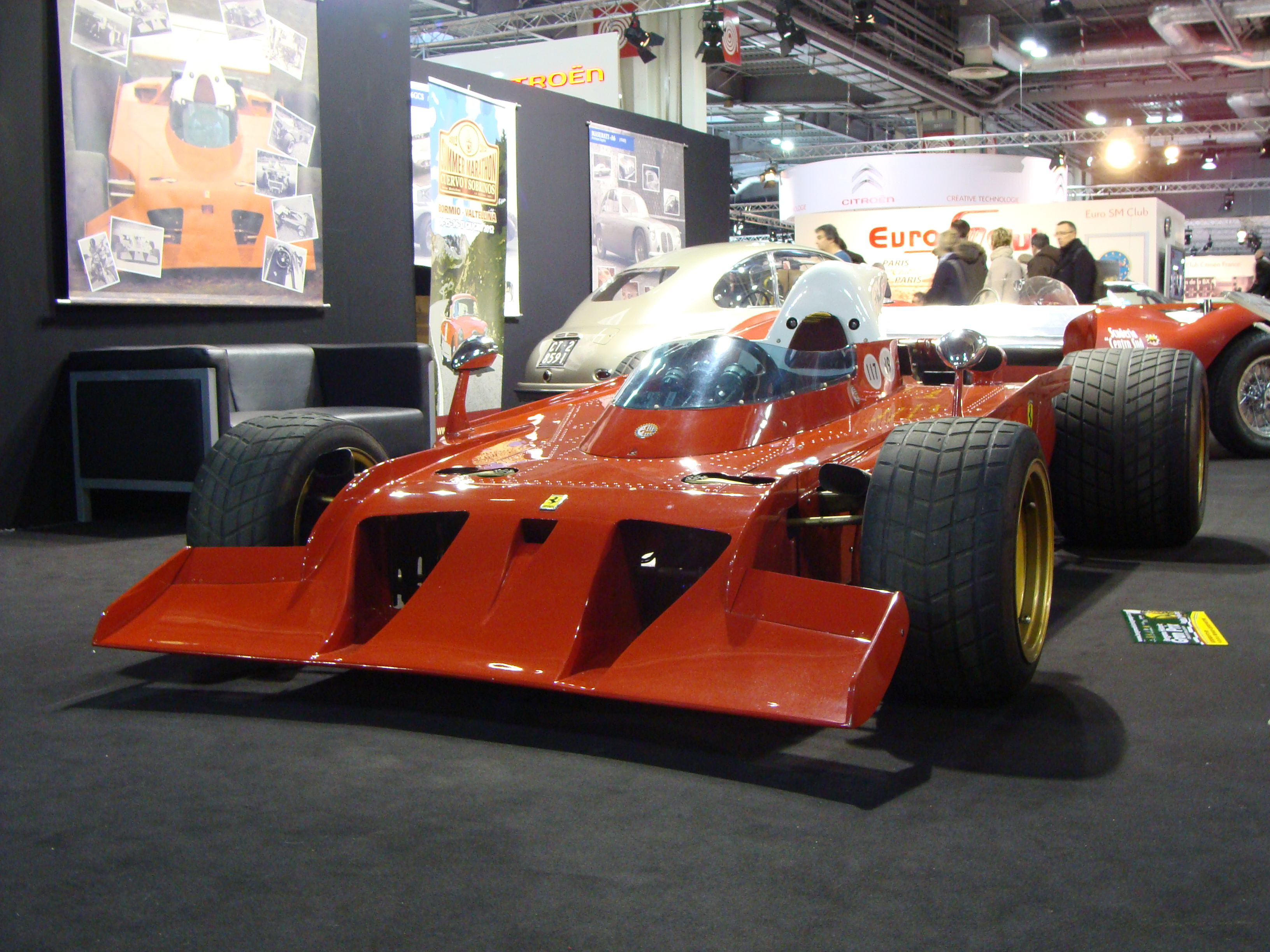 Ferrari 312 B3 at Rétromobile 2012